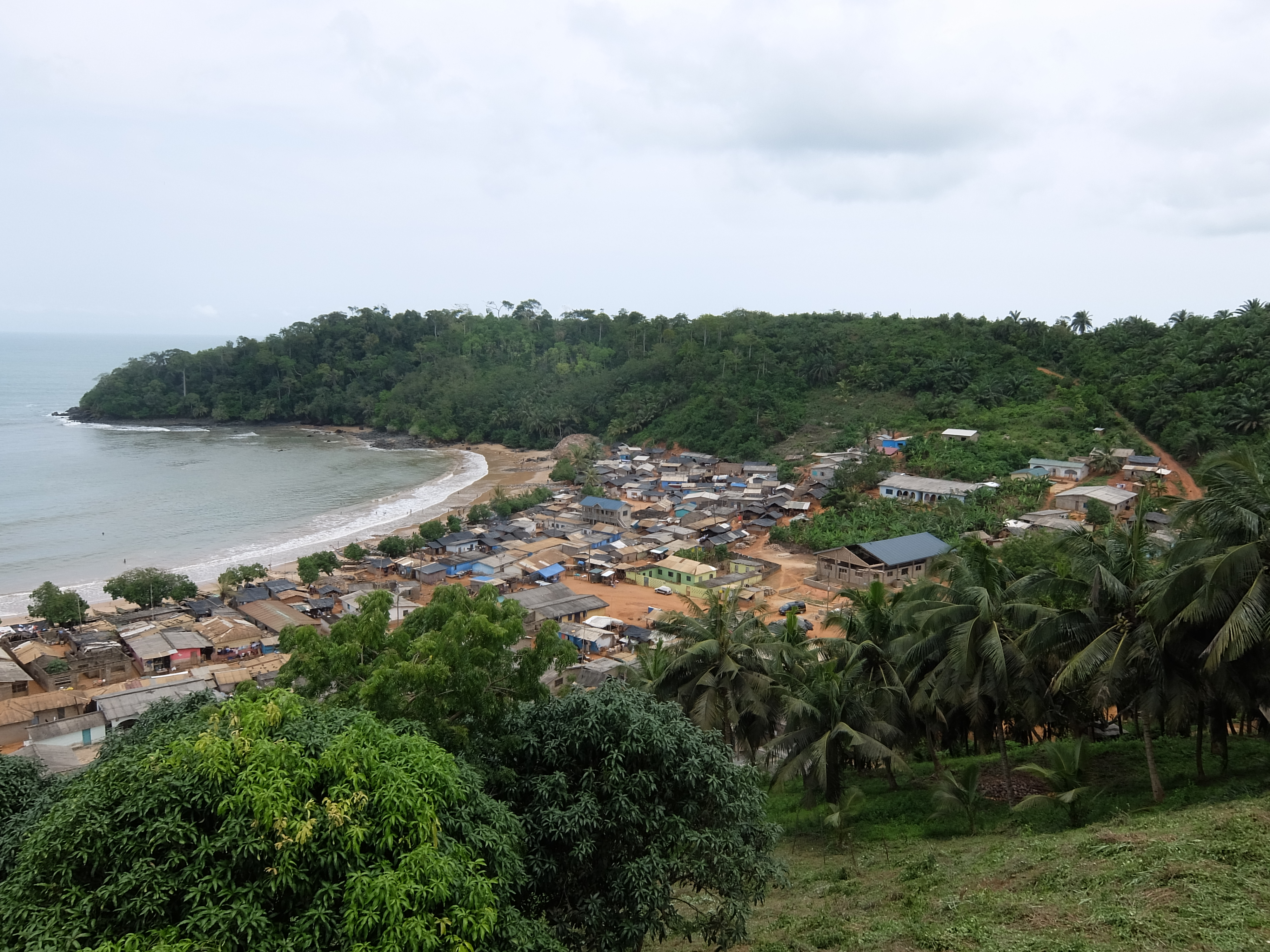 The village of Butre, seen from Fort Batenstein. Picture taken in April 2017.